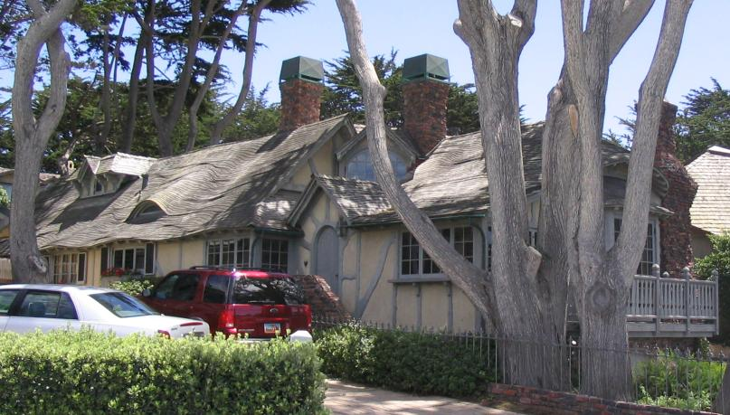 Typical Carmel house. Image by myself